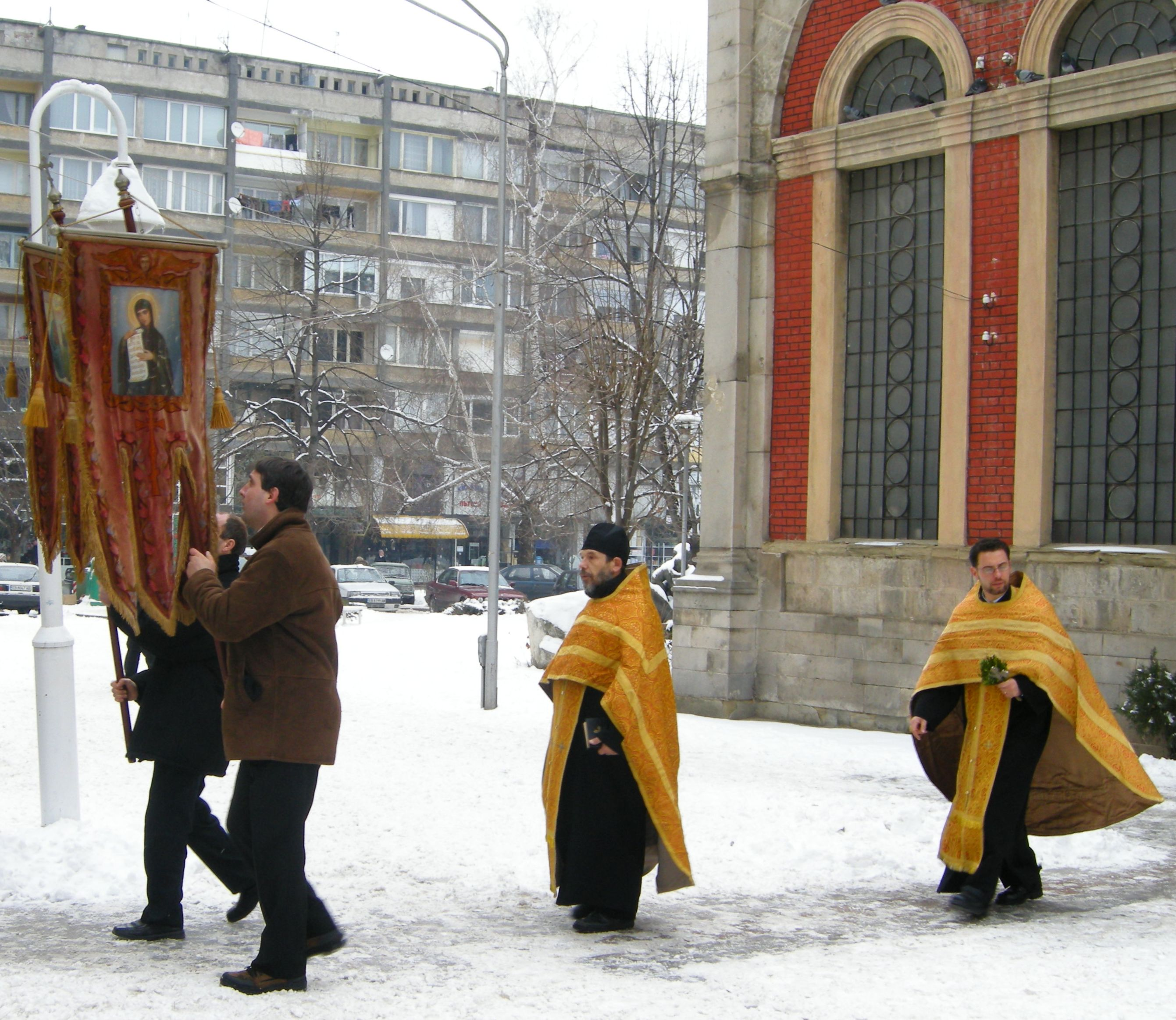 Two bulgarian orthodox priests, going out of the church to perform a Great Blessin of Waters and to lead a crucession at Epiphany.